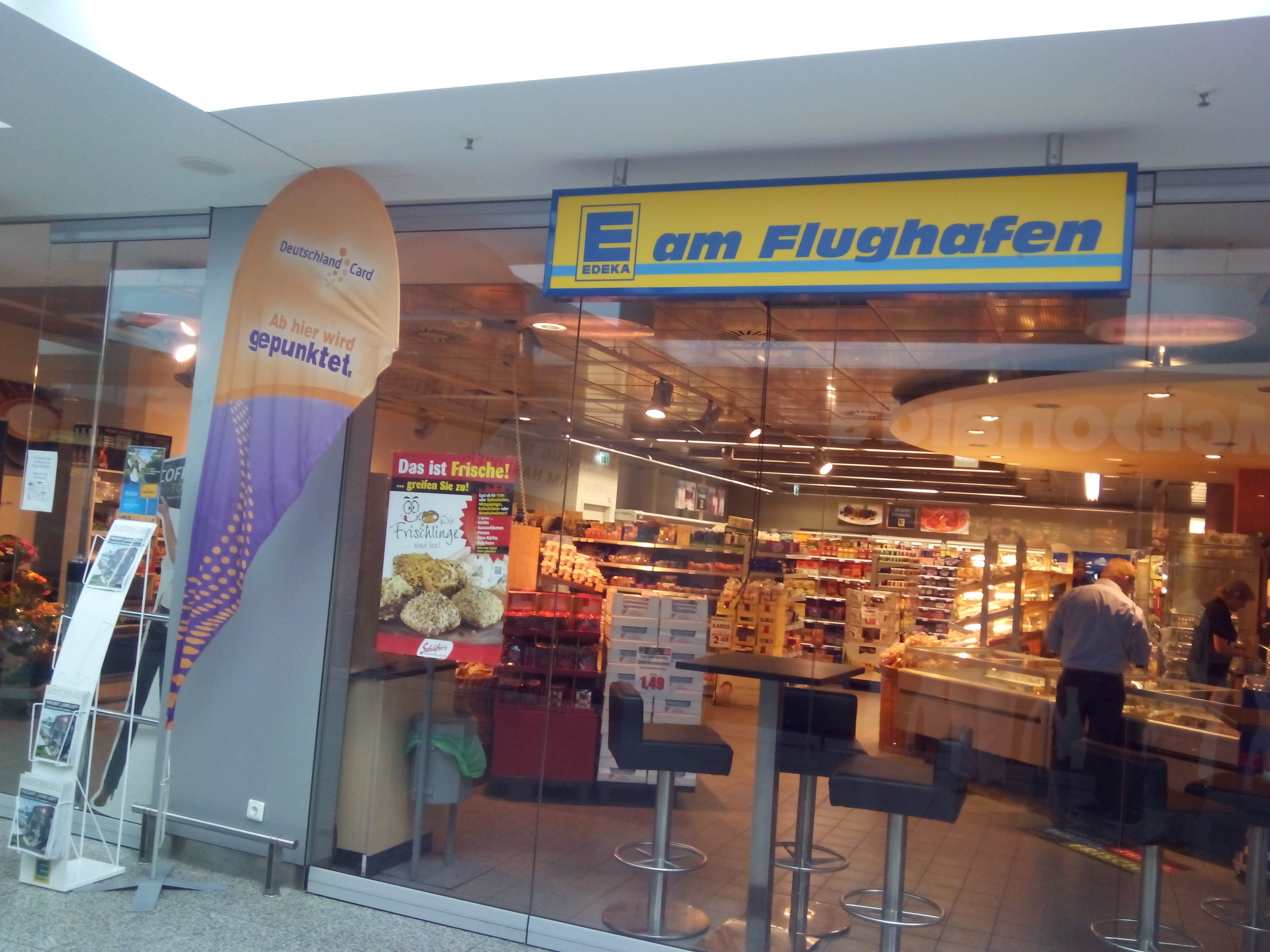 An Edeka store at Hannover airport (Langenhagen)